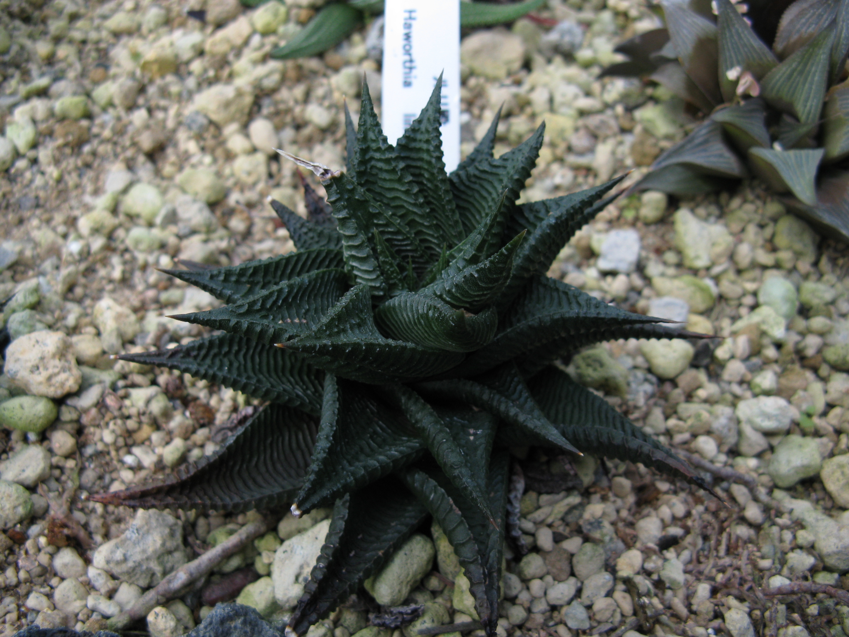 Haworthia limifolia Place:Osaka Prefectural Flower Garden,Osaka,Japan